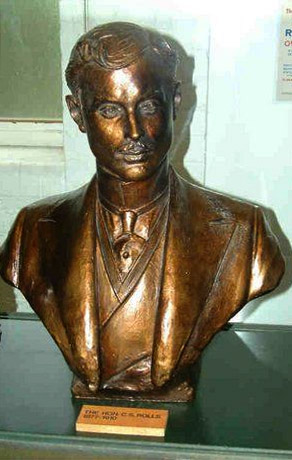 Photo of a bronze bust of The Hon. Charles Stewart Rolls, kept at Derby Industrial Museum. Photo taken by Chris Harris. Bild:Charles Rolls.jpg